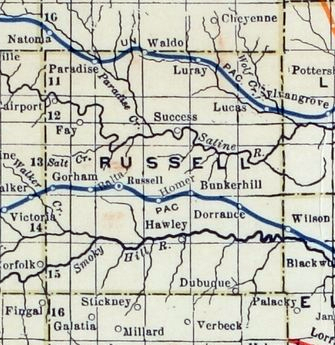 Stouffer's Railroad Map of Kansas, 1915-1918, Russell County.